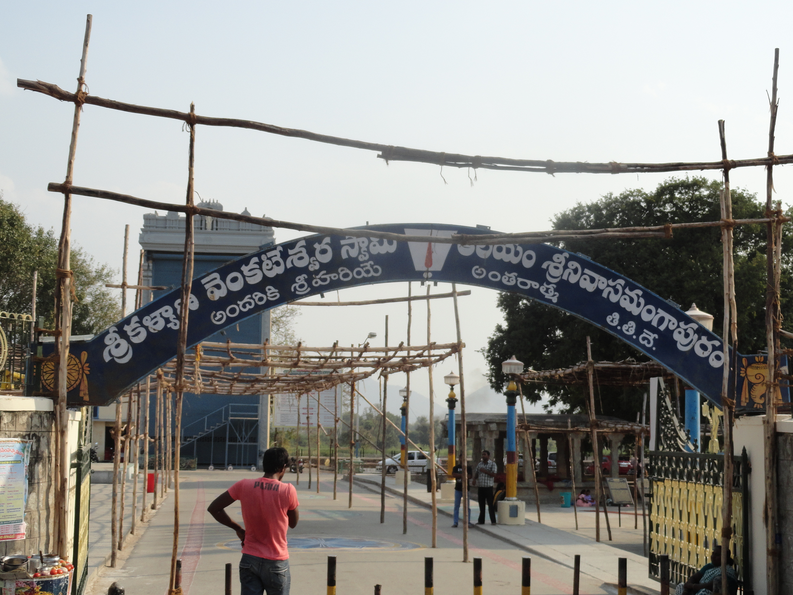 entrance board of Srikalyanavenkateswara swamy vari temple